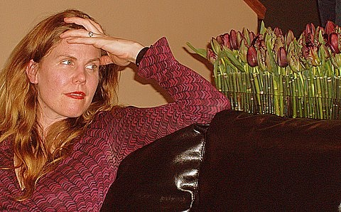 Chelsea Cain at speaking engagement--Portland, Oregon